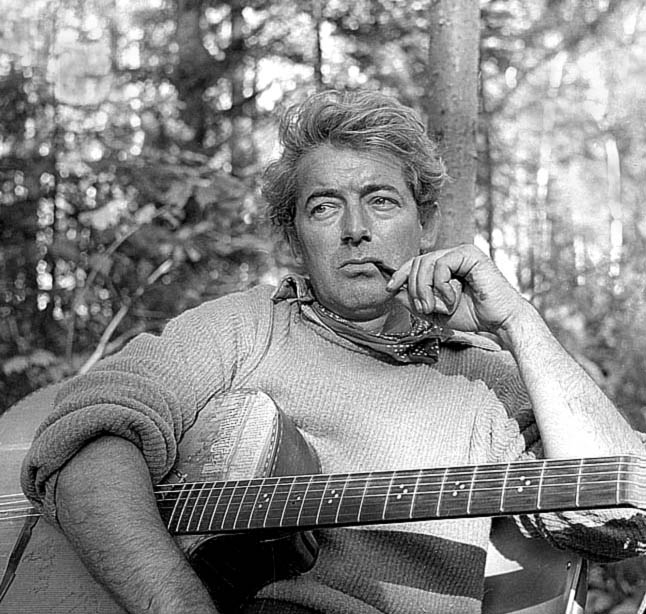 Quebec's singer and poet Felix Leclerc in a image from the "Abitibi" TV program, July 1957